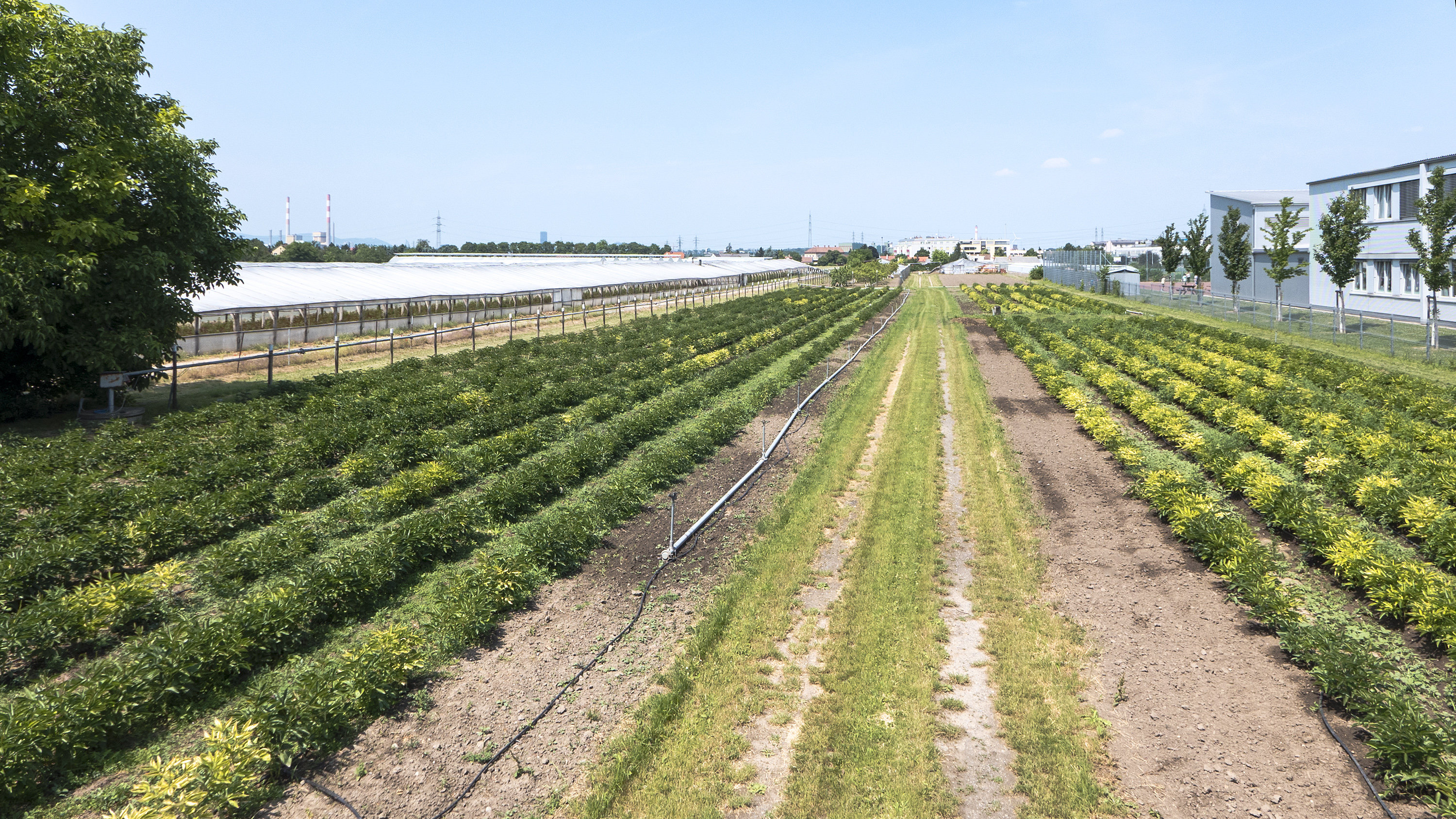 Agriculture in Simmering